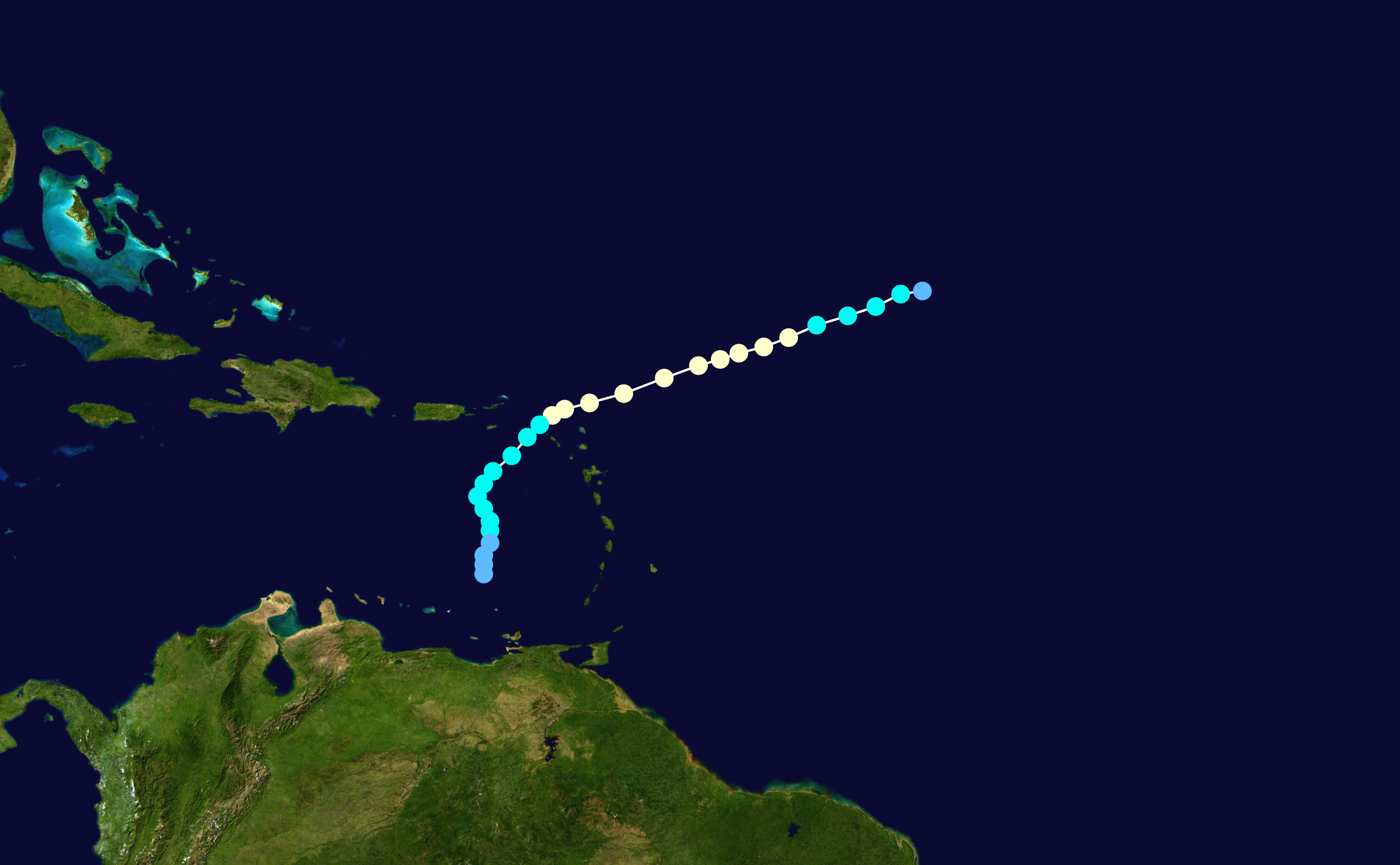 Track map of Hurricane Alice of the 1954 Atlantic hurricane season. The points show the location of the storm at 6-hour intervals. The colour represents the storm's maximum sustained wind speeds as classified in the Saffir–Simpson hurricane wind scale (see below), and the shape of the data points represent the nature of the storm, according to the legend below. Saffir–Simpson hurricane wind scale Tropical depression≤38 mph≤62 km/h Category 3111–129 mph178–208 km/h Tropical storm39–73 mph63–118 km/h Category 4130–156 mph209–251 km/h Category 174–95 mph119–153 km/h Category 5≥157 mph≥252 km/h Category 296–110 mph154–177 km/h Unknown Storm typeTropical cycloneSubtropical cycloneExtratropical cyclone / Remnant low / Tropical disturbance